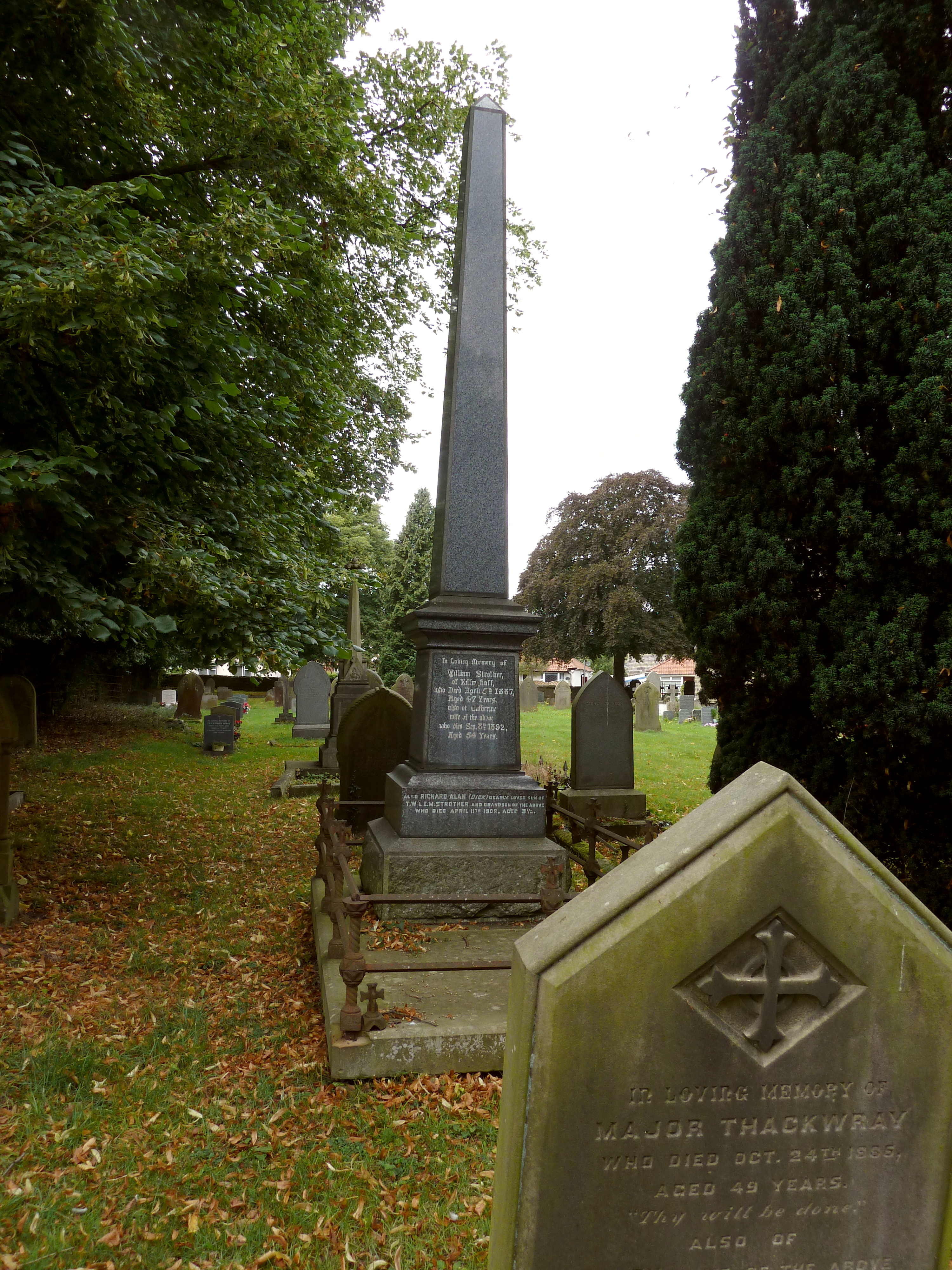 Churchyard of St Thomas the Apostle, parish church of Killinghall, North Yorkshire, England. Victorian tombstones.